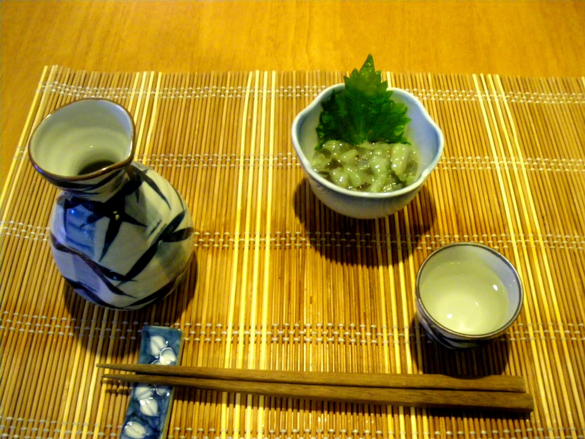 Japanese sake bottle(tokkuri) and takowasa(octpus with wasabi paste,a side dish of Japanese cuisine.）